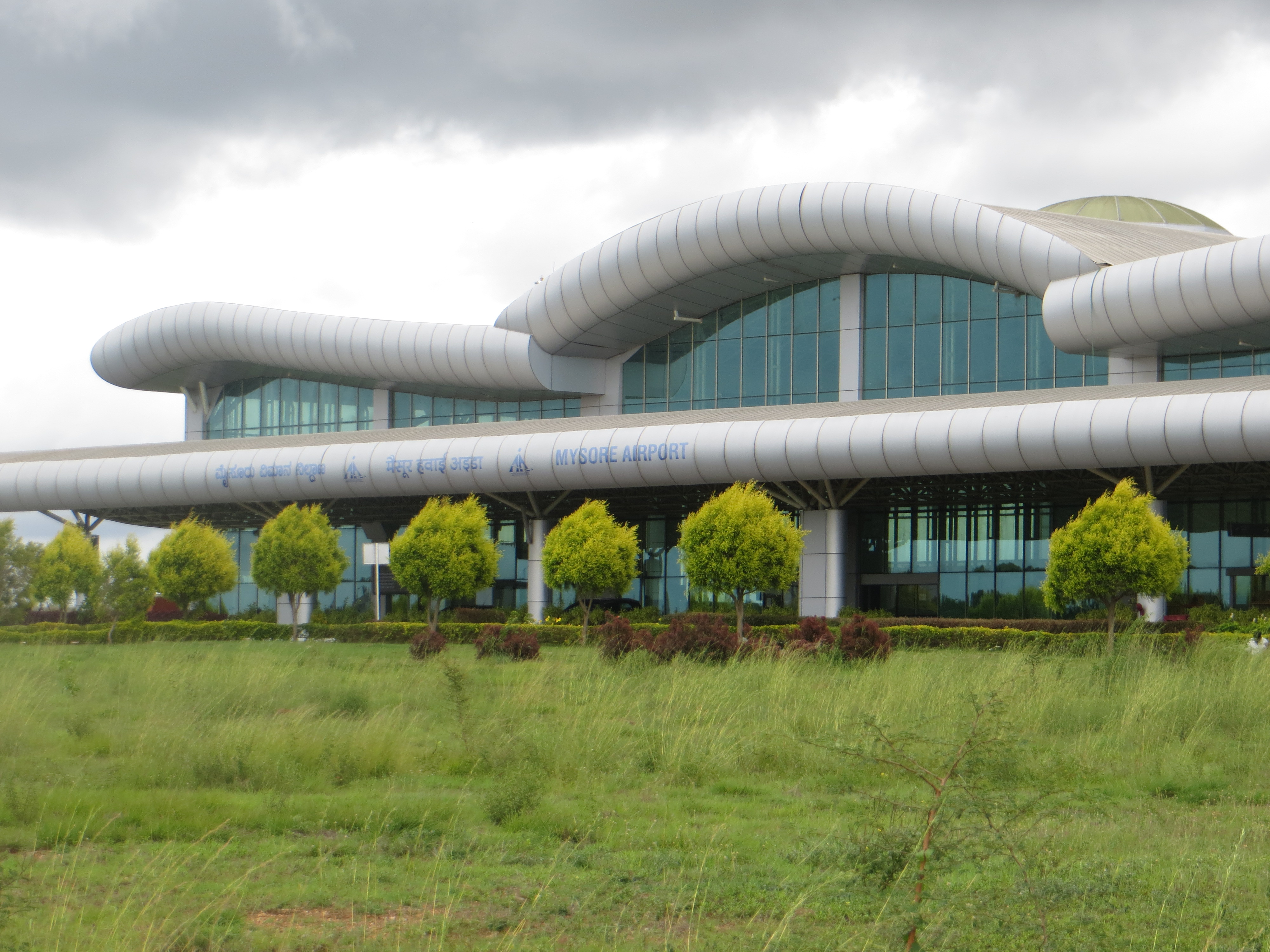 Terminal of Mysore Airport, India